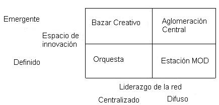 Innovation Models and Collboration Networks